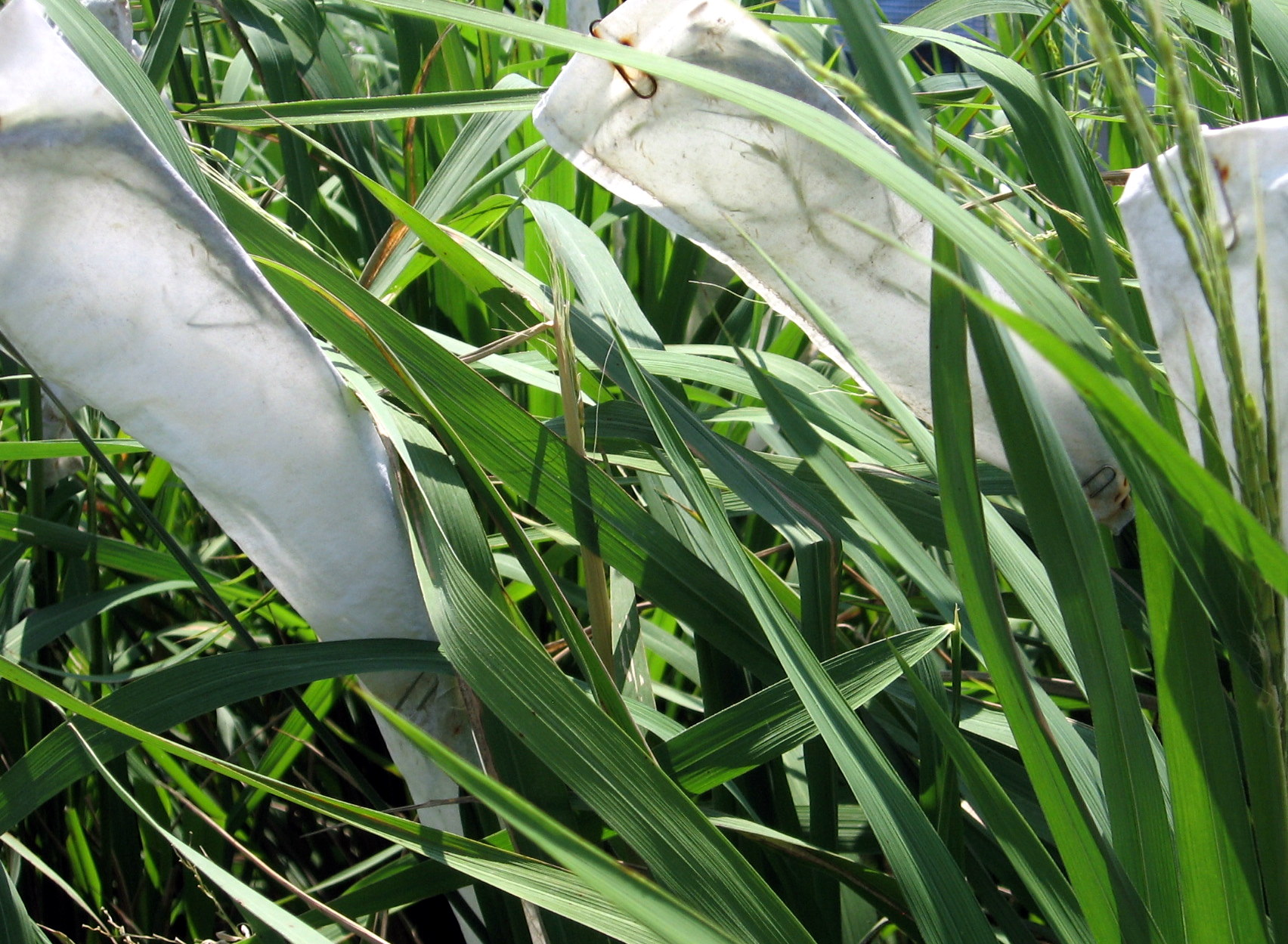 Paper bags have been placed over panicles (inflorescences, heads) of a rice plant to prevent accidental pollination. This plant was in a perennial rice breeding nursery belonging to the Yunnan Academy of Agricultural Sciences in Hainan Province, PRC.